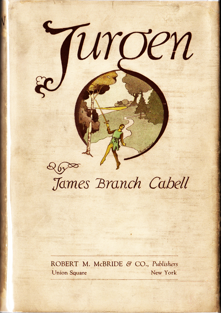 Cover of the first edition of Jurgen, A Comedy of Justice by James Branch Cabell